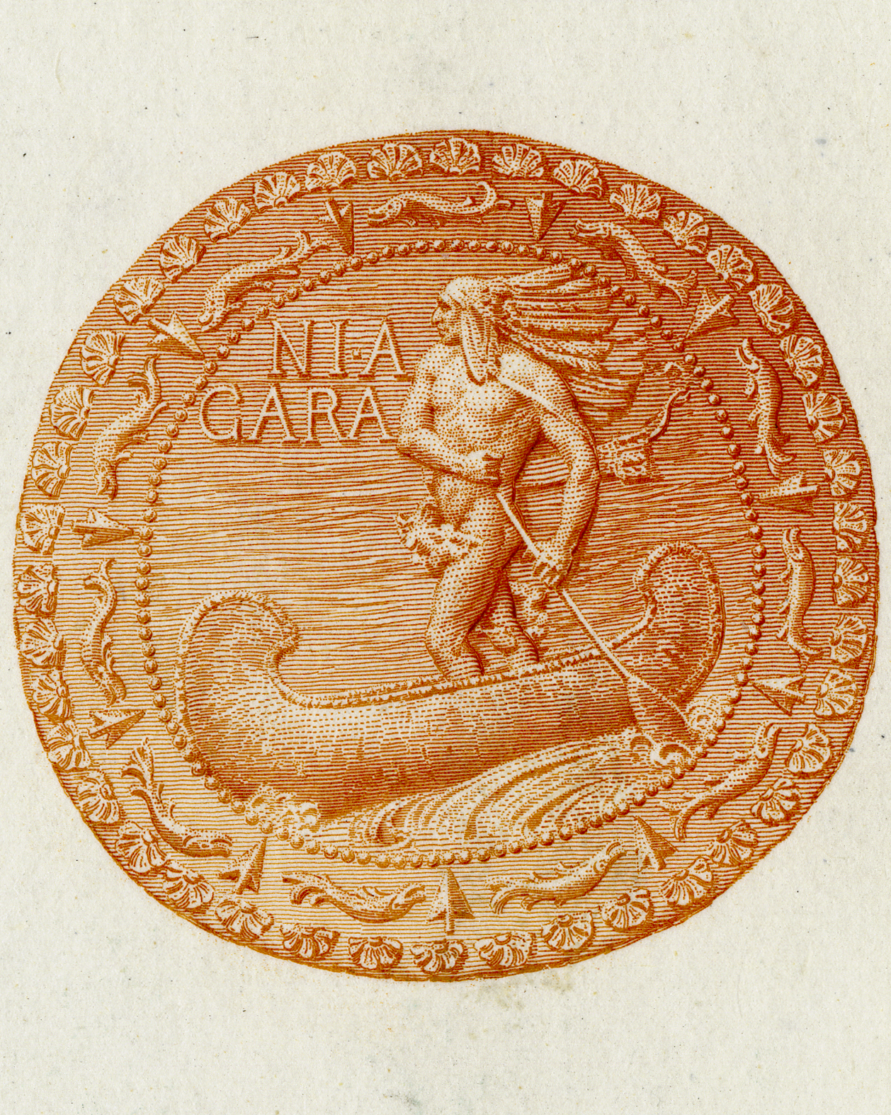 Lorenzo Hatch (b.1856) was an engraver at the U.S. Bureau of Engraving and Printing from 1874 to 1887. (Image courtesy of the Smithsonian Institution).